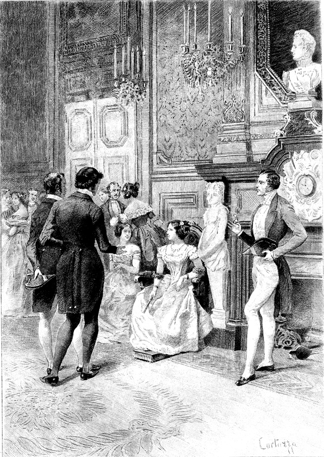 Illustration of Honoré de Balzac's The Deputy from Arcis (1847): The Rastignac Salon.